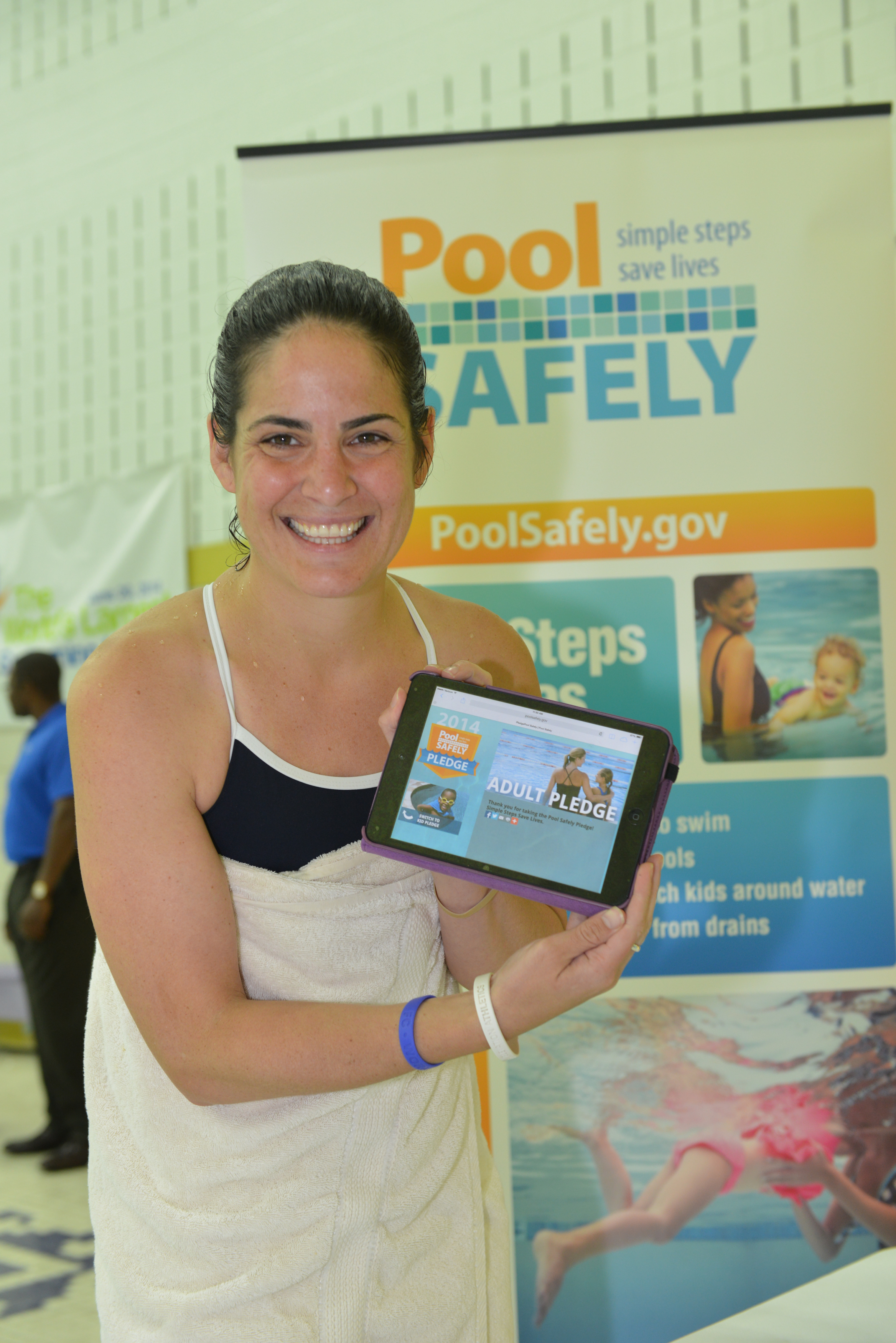 Olympian Maddy Crippen takes the Pool Safely pledge